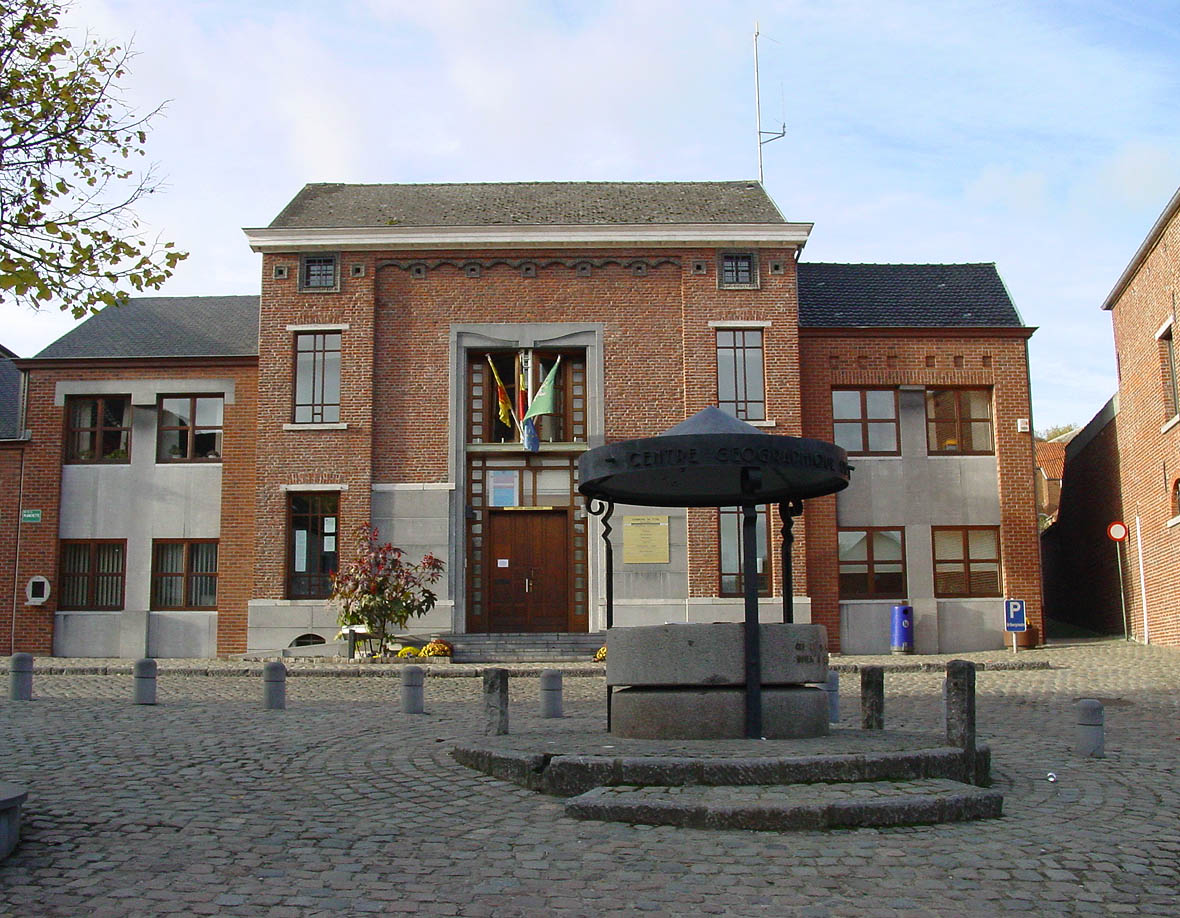 Ittre town hall